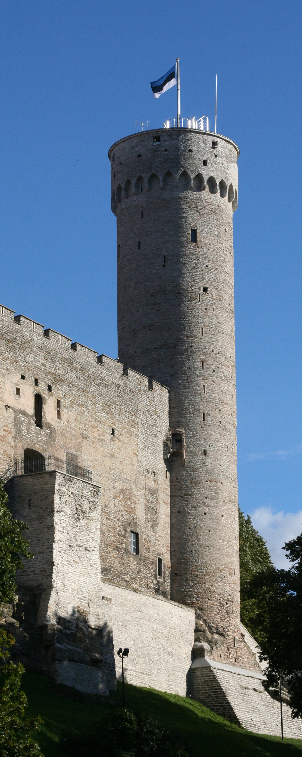 Tall Hermann Tower at Toompea Castle, Tallinn Estonia